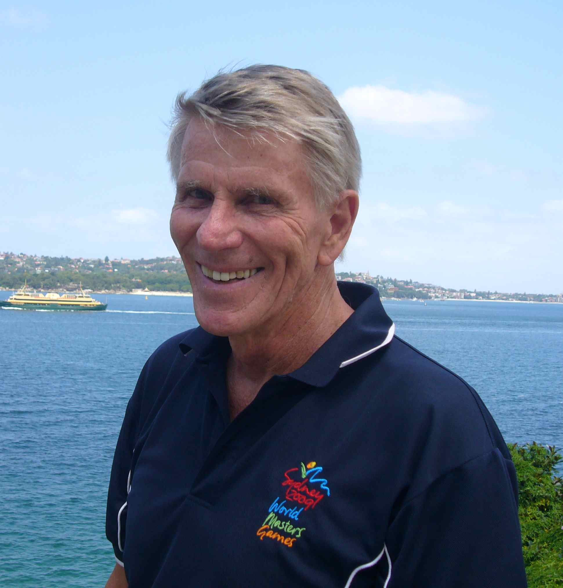 Murray Rose overlooking Sydney Harbor